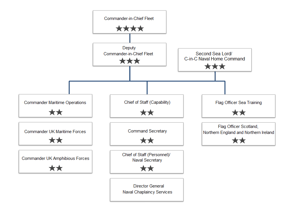 Author: B C De Souza Source: MS Paint